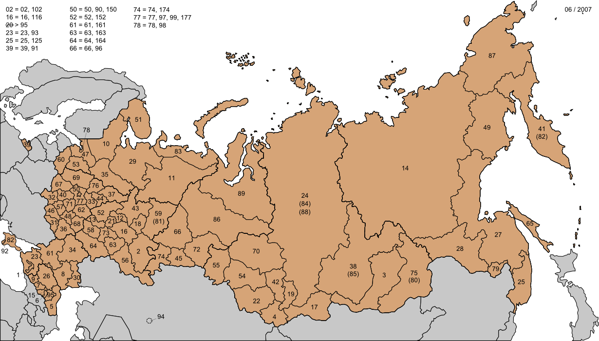 Map of Numbers of Russian license plates